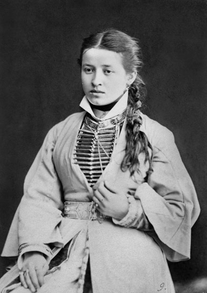 The Ossetian girl Zhukaeva in traditional dress. North Ossetia. Ossetians. 1883